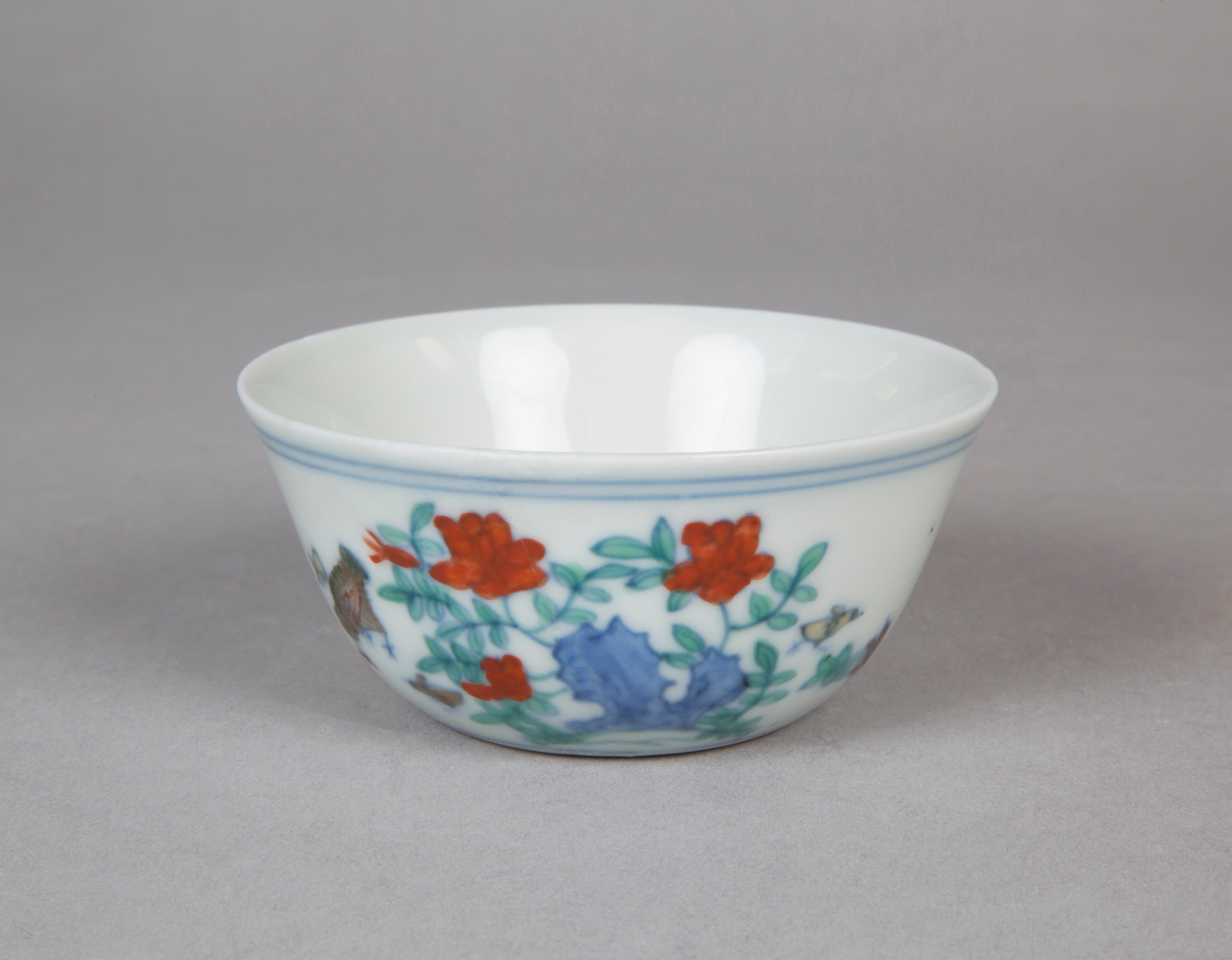 China; Cup; Ceramics